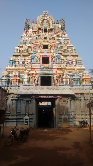 Thiruvarangulam arangulanathartemple திருவரங்குளம் அரங்குளநாதர் கோயில்